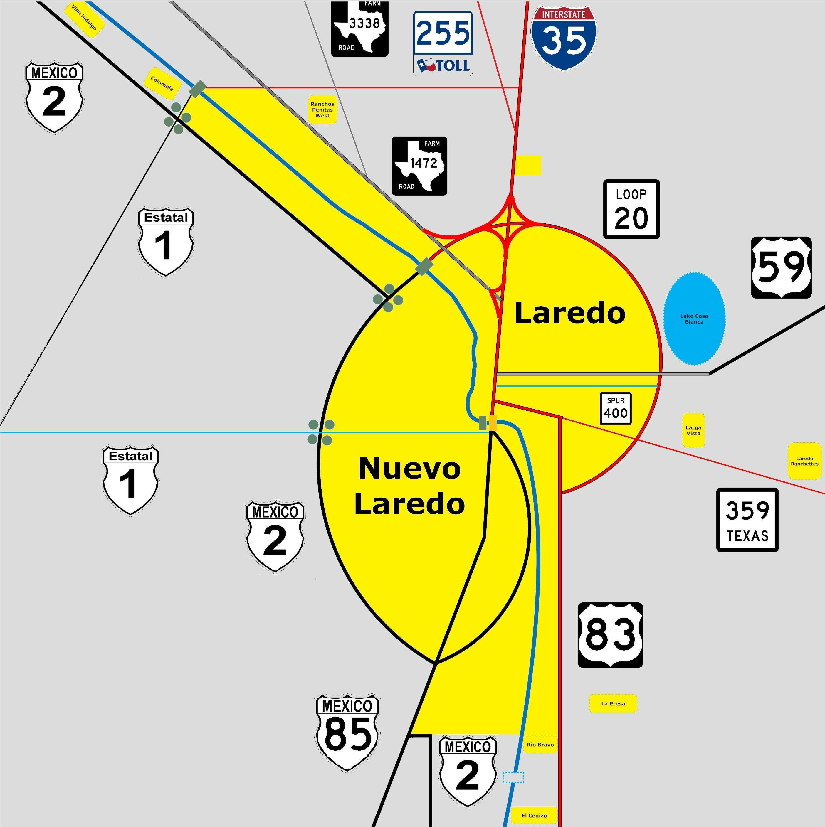 Juarez_Lincoln International Bridge location map in Laredo, Texas